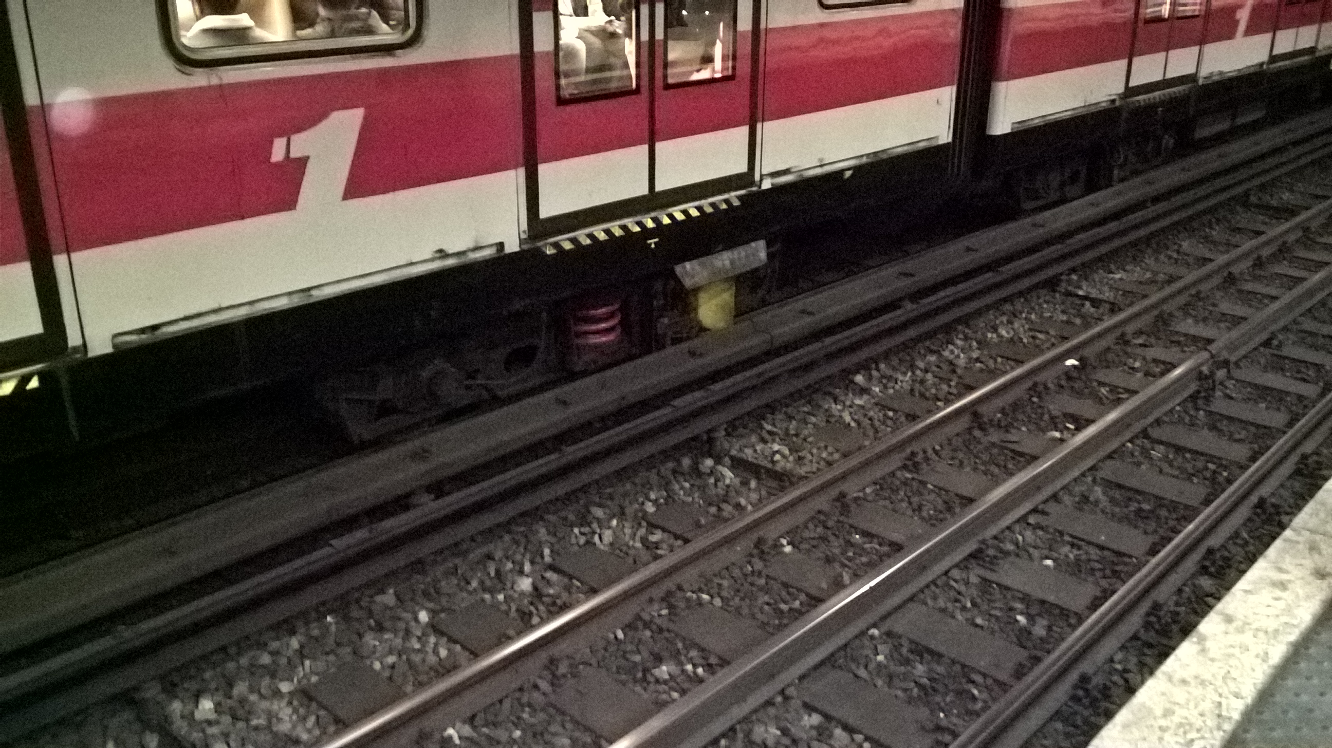 A train of Milan Metro's Line 1 (M1 or Red Line). The contact shoe for the fourth-rail feeding system can be seen between the axles. The fourth-rail system has two standard rails (standard gauge), a centre rail called "third rail" and a lateral, elevated rail called "fourth rail". The third and the fourth rail carry electric power, while the standard rails are at ground potential. The power is collected by the train through contact shoes.